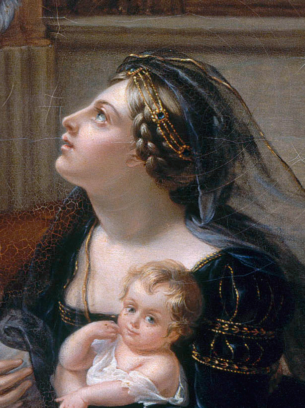 Inês de Castro with Her Children at the Feet of Afonso IV, King of Portugal, Seeking Clemency for Her Husband, Don Pedro, 1335